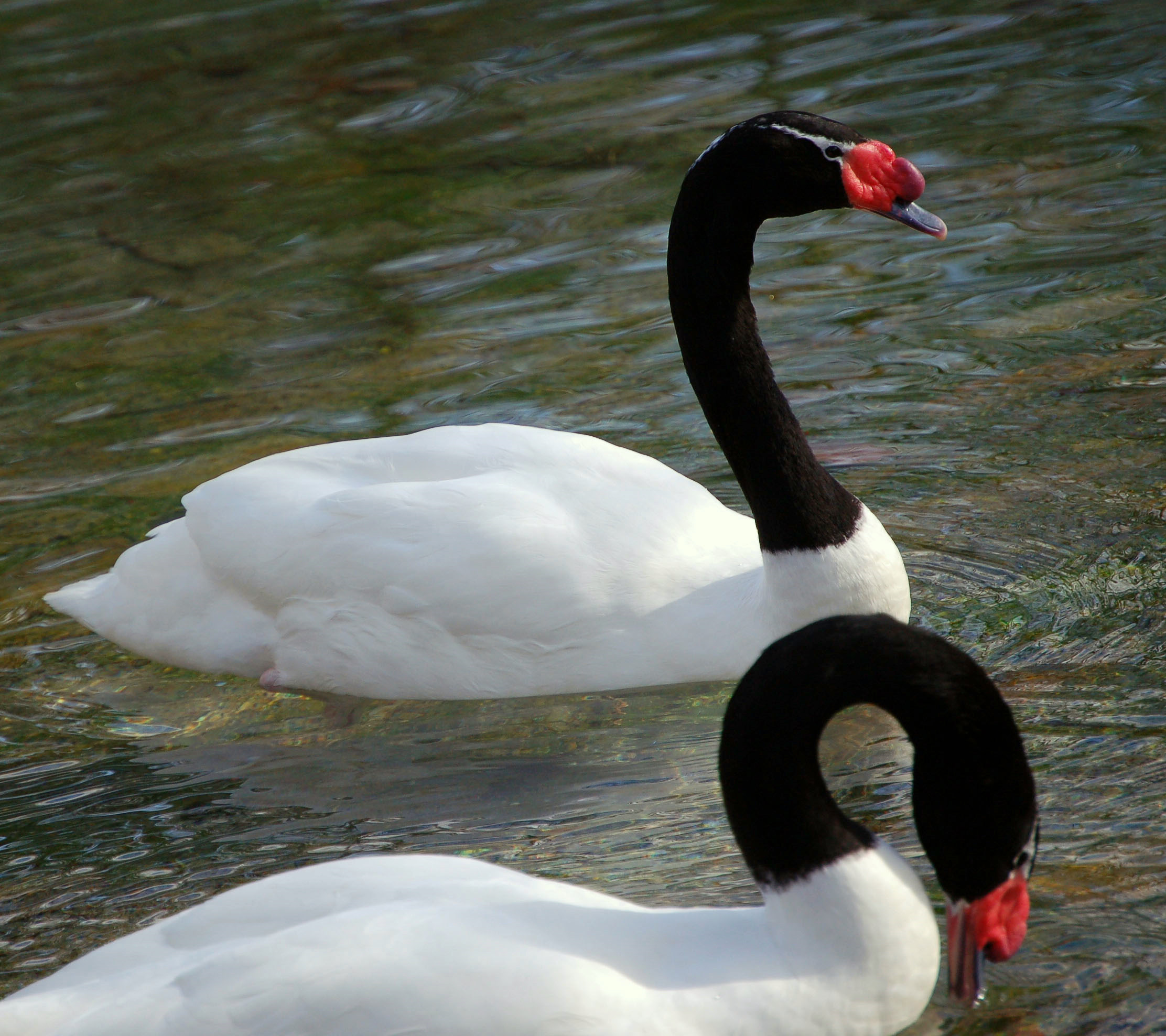 Black Necked Swan